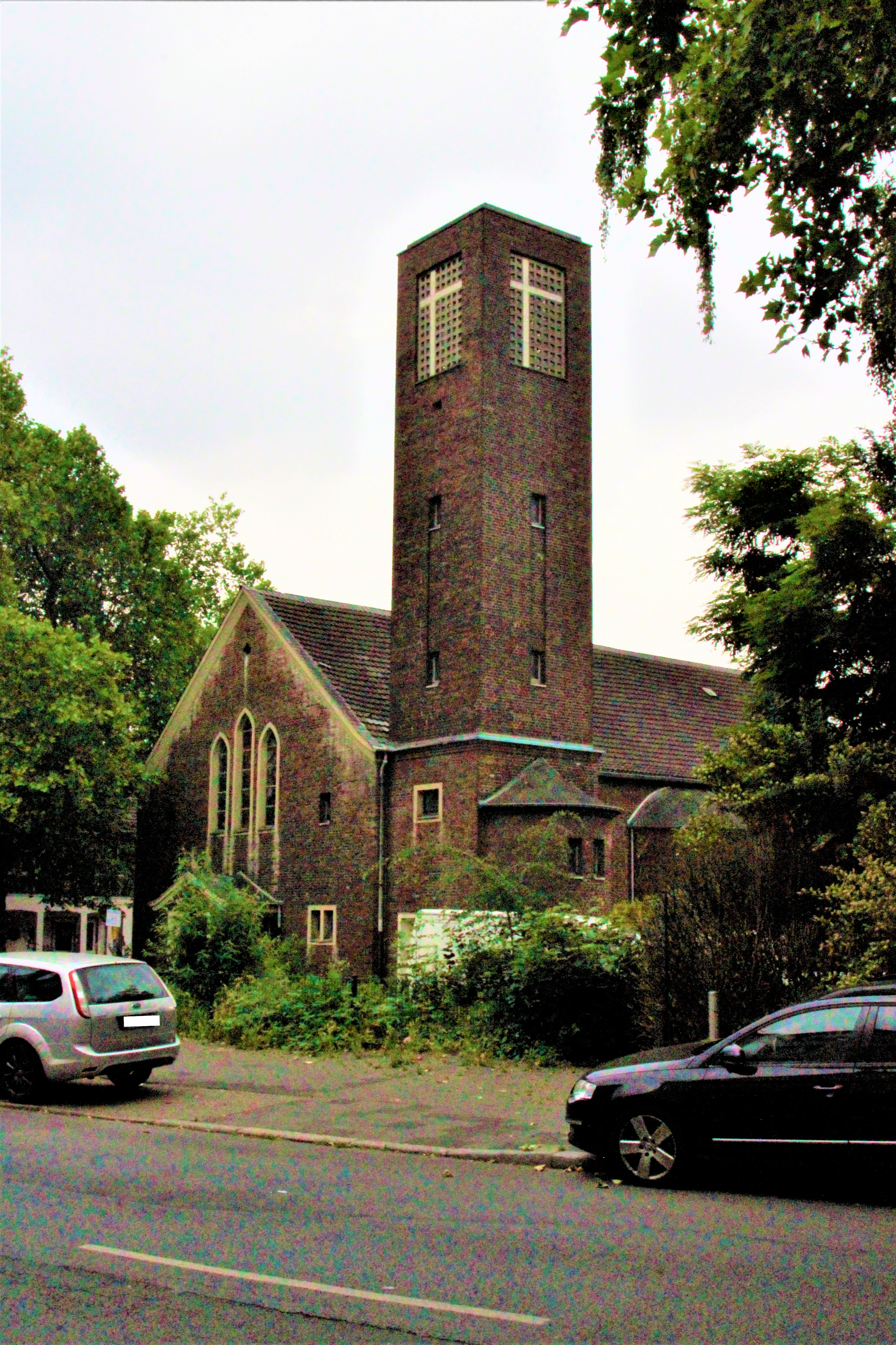 Zu sehen ist der Kirchturm der Kreuzkirche in Bochum-Hamme